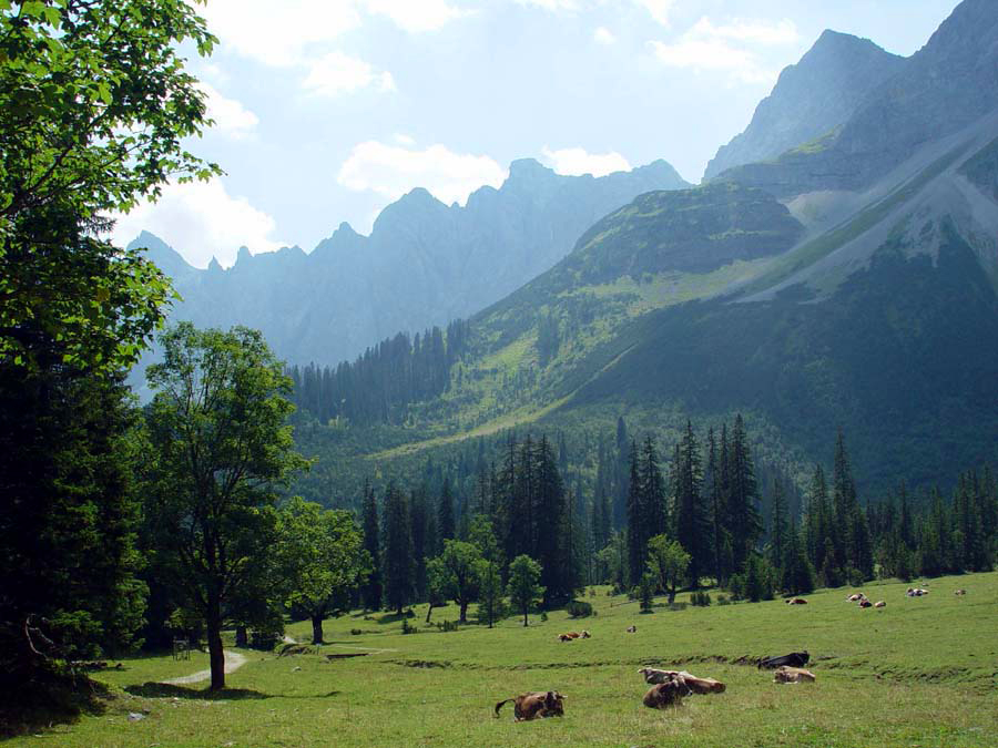 Kleiner Ahornboden, Karwendel, Tirol, Austria. Mountains from right to left: Moserkarspitze 2533m, Kühkarlspitze 2465m, Nördliche Sonnenspitze 2650m. Bockkarspitze 2589m, Langer Sattel to Laliderer Spitze 2588m.